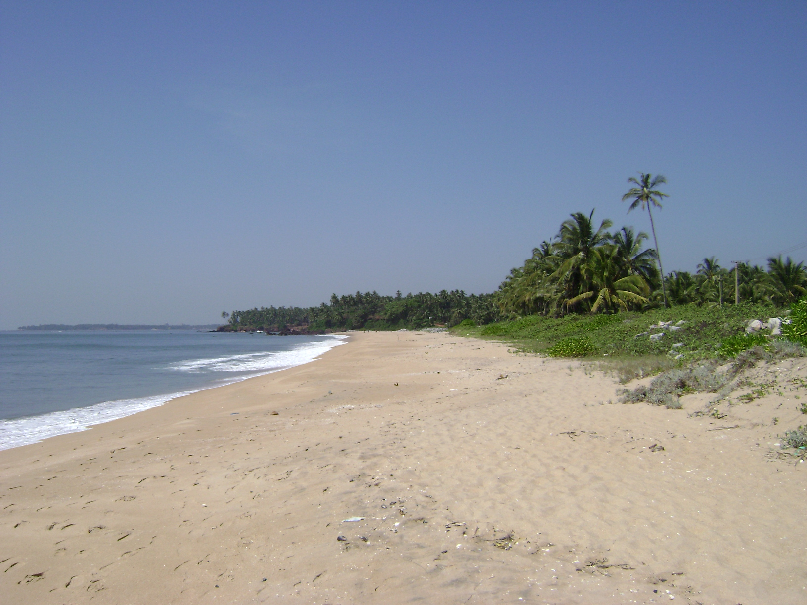 Beach in Thottada village, Kannur, Kerala, India